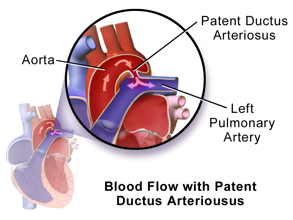 Patent Ductus Arteriosus. See a related animation of this medical topic.